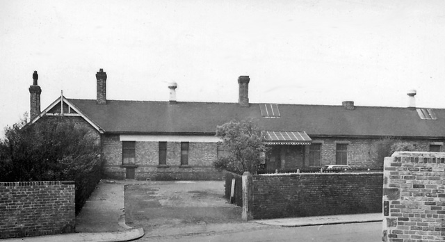 Bensham Station (remains). View westward of remnants of Up side station buildings; ex-NER East Coast Main Line, Newcastle - Darlington - York etc. This 'suburban' station had been closed long before, on 5/4/54.